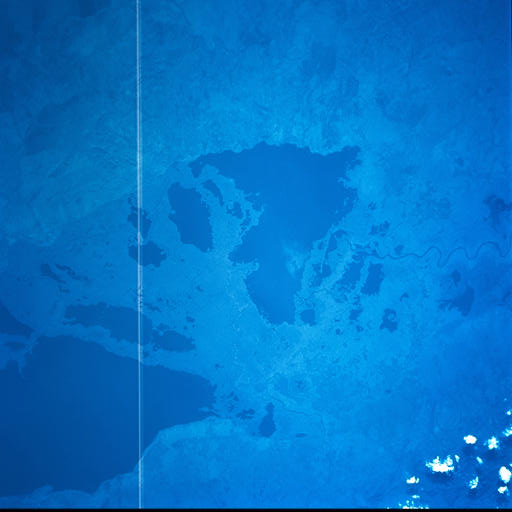 Lake Kisale, Democratic Republic of the Congo.